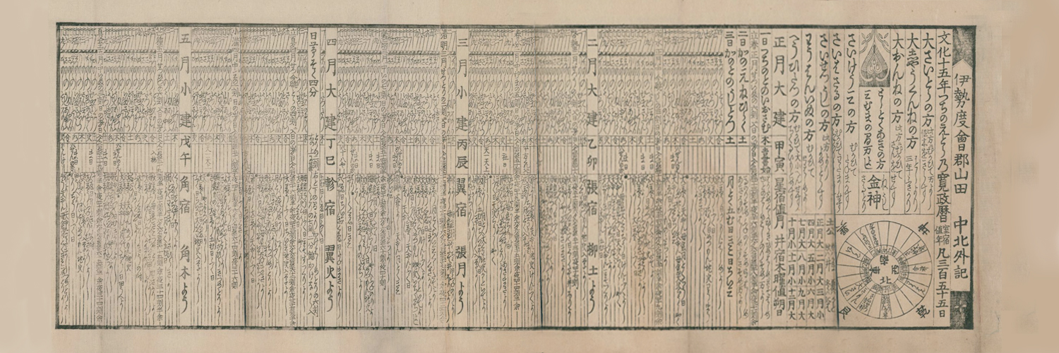 Japanese calendar called Ise-koyomi